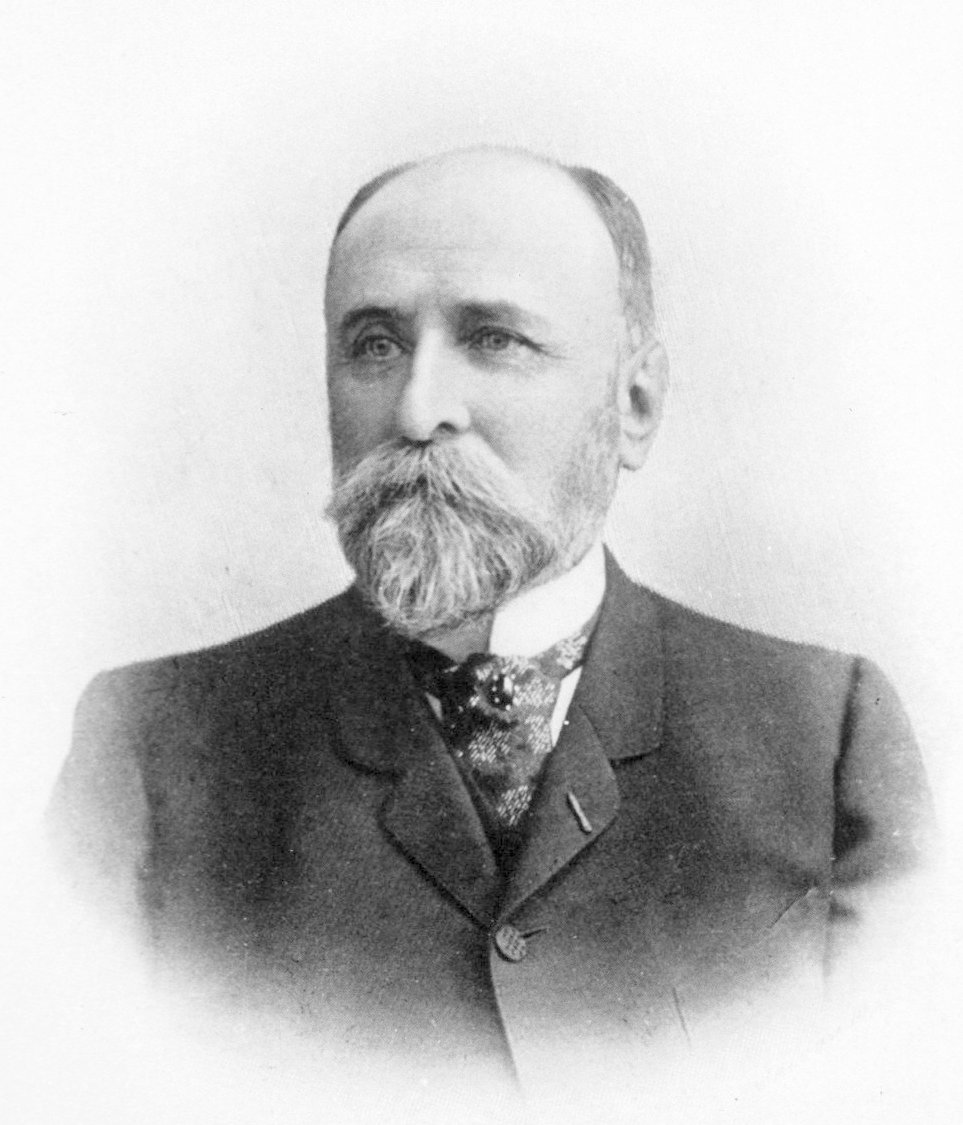 Alexis Jouffroy